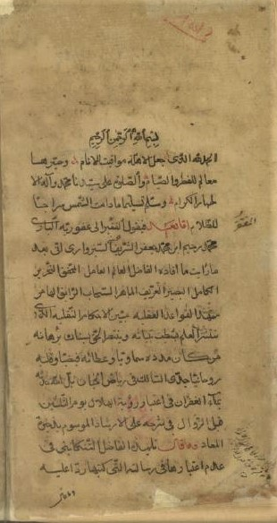 Islamic Manuscript- Royah al-Helal Author: Muhammad Rahim ibn Muhammad Jafar Sabzevari (?- 1768 / ?-1181 A.H.) Islamic Consultative Assembly Library, Museum and Documentation Centre Number: 15314/1